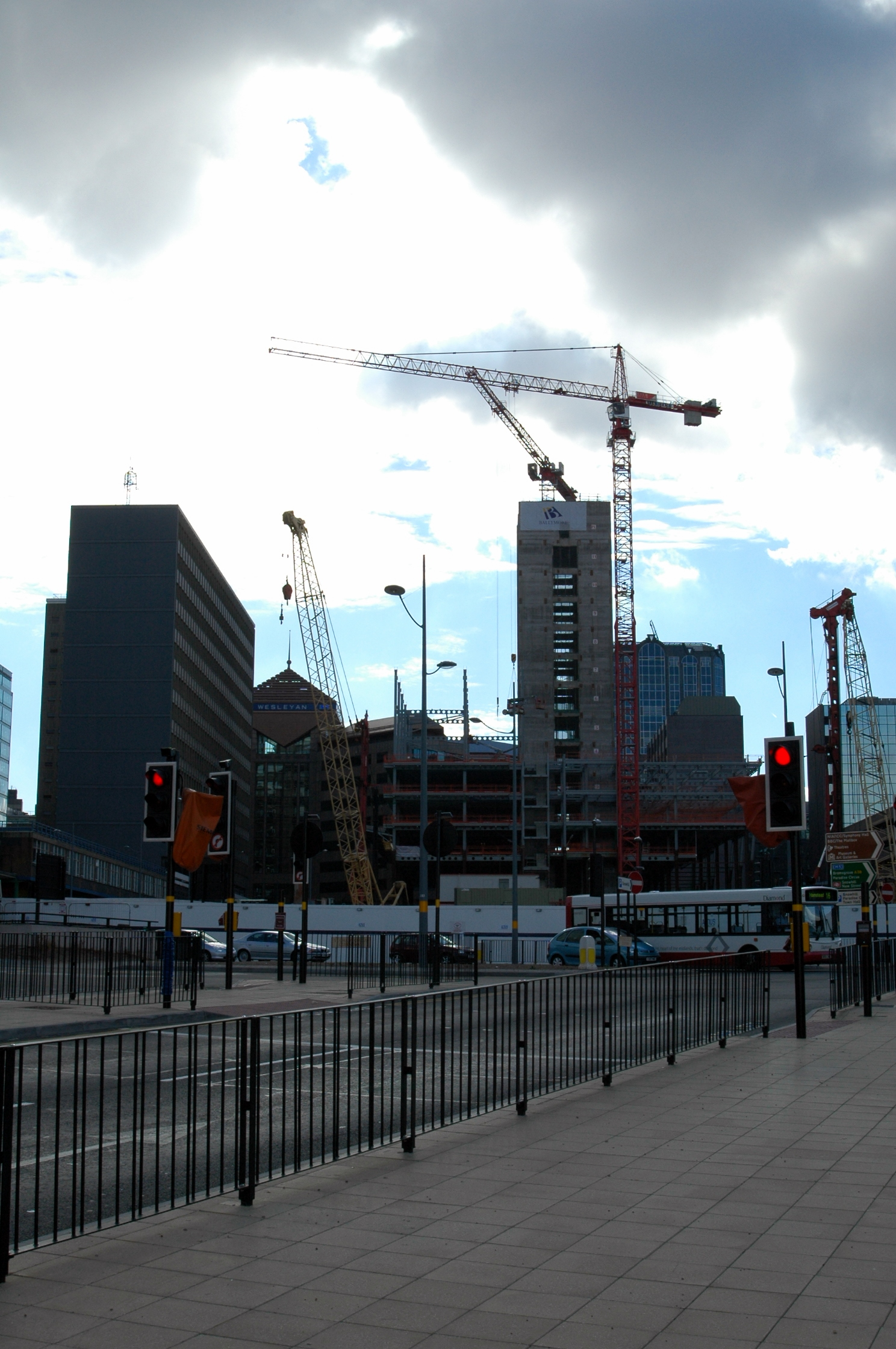 A view of construction work at the Snowhill site in Birmingham, England. The building under construction is Phase 1, an office building with equipment in the foreground preparing the site for Phase 3.